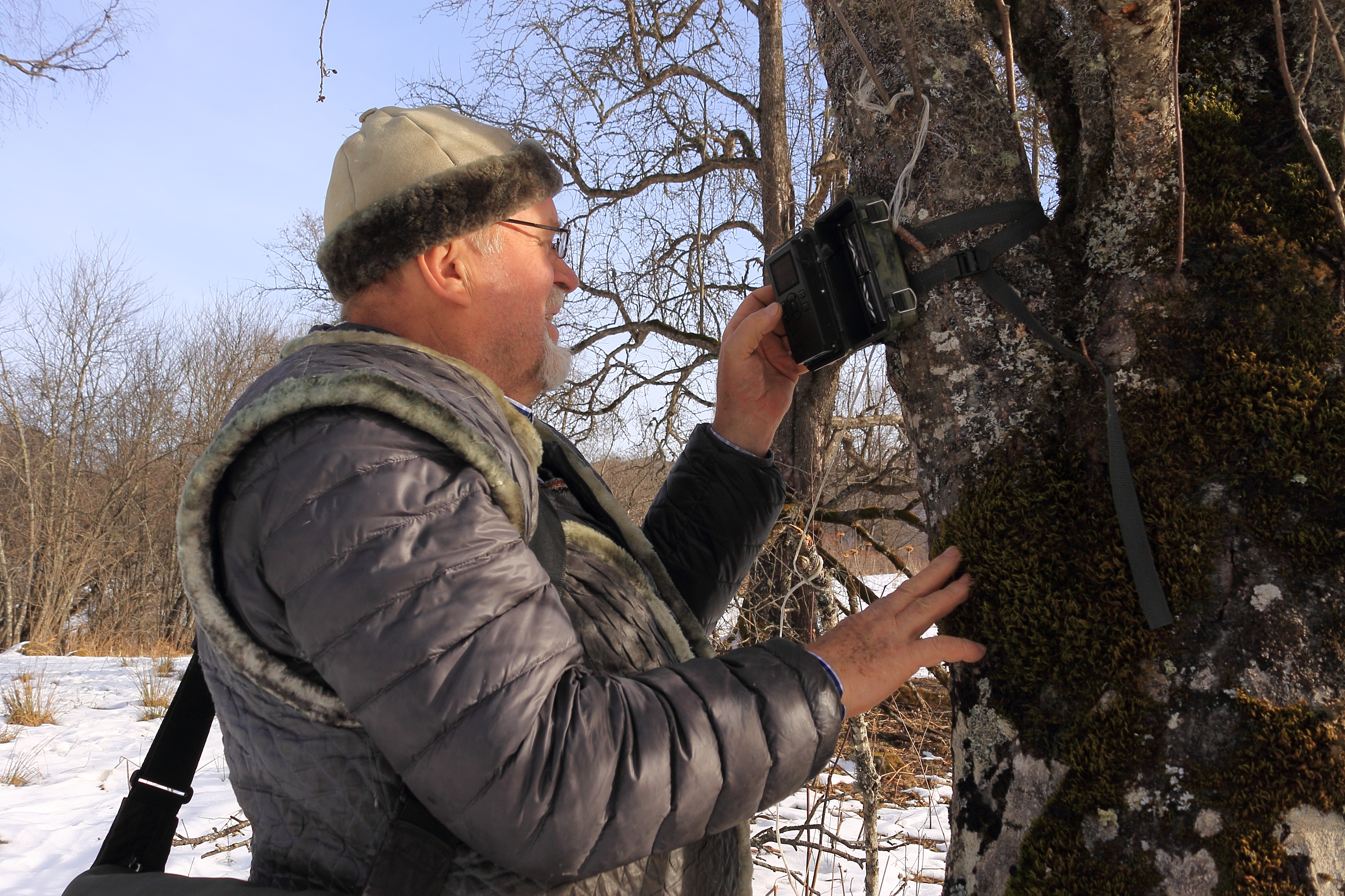 Professor A.N. Kudaktin checks camera trap established for implementation of monitoring of wild animals within the Persian Leopard Reintroduction Program in the Caucasus. Caucasian State Biosphere Nature Reserve, December 2015. The program for reintroduction of a Persian leopard in the Caucasus [2] provides the hidden monitoring of a condition of food supply in places of reintroduction of leopards in the wild nature. The Programme will be carried out over a ten year period (2010-2016).